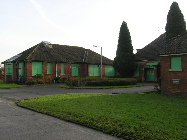 Barrow Hospital. Due to close in a few months many of the buildings of this Psychiatric Hospital have been boarded up for many years. This shows "South Side" with the courtyard to the former Day Hospital. All due to be redeveloped when the site is sold.